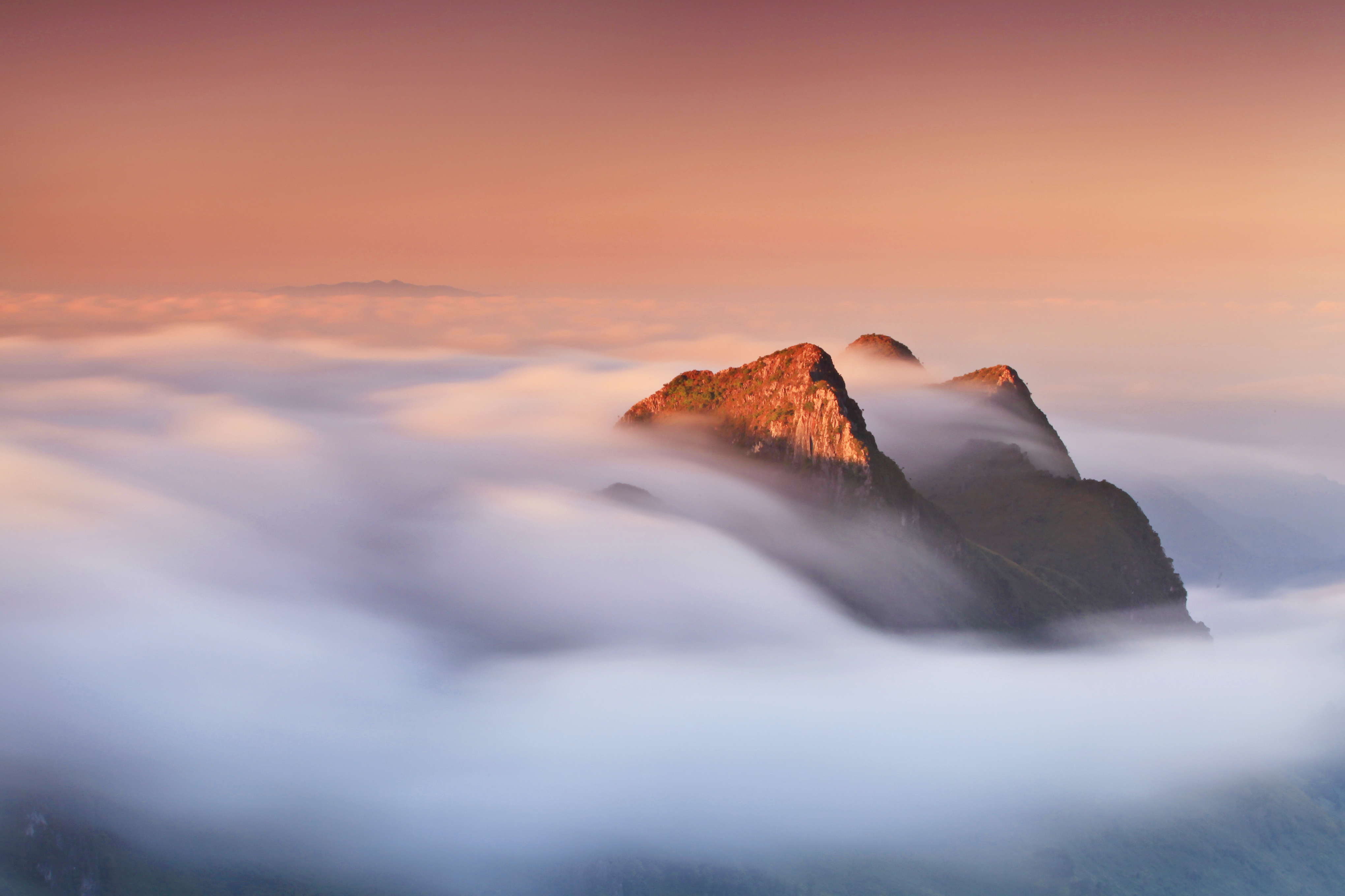 Chiang Dao lies above the Menam Ping gorge on the green slopes of Doi Chiang Dao mountain. The name means "City of Stars", and derives from its earlier name Piang Dao, or "(at the) level of the stars". True to the name, limestone peaks reaching a height of 2,186 m (7,174 ft) make Chiang Dao an impressive area. The village is a quiet little picturesque area, with a quaint northern Thailand feel.